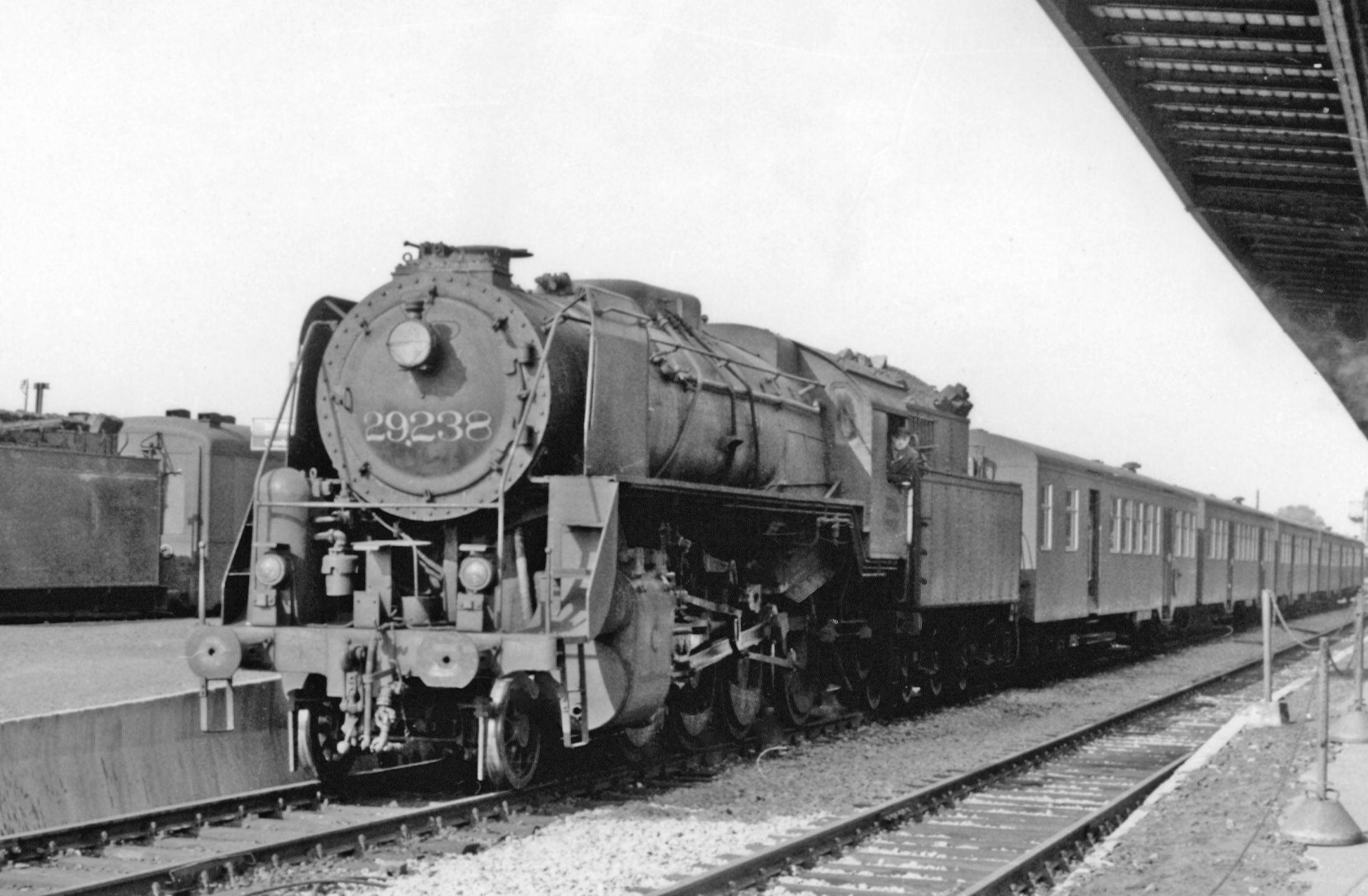 SNCB ex-US Army Class 29 2-8-0 on Westbound train at Mons station.